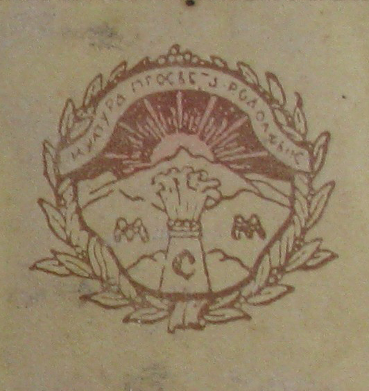 Cropped logo of MSM organization in Bulgaria, from personal member card.